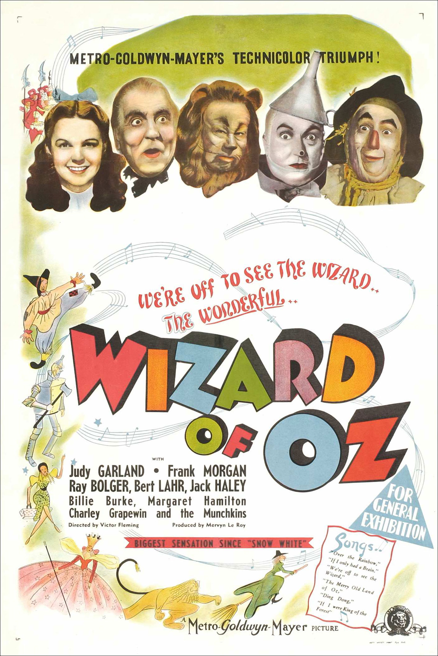 Wizard of OZ movie poster